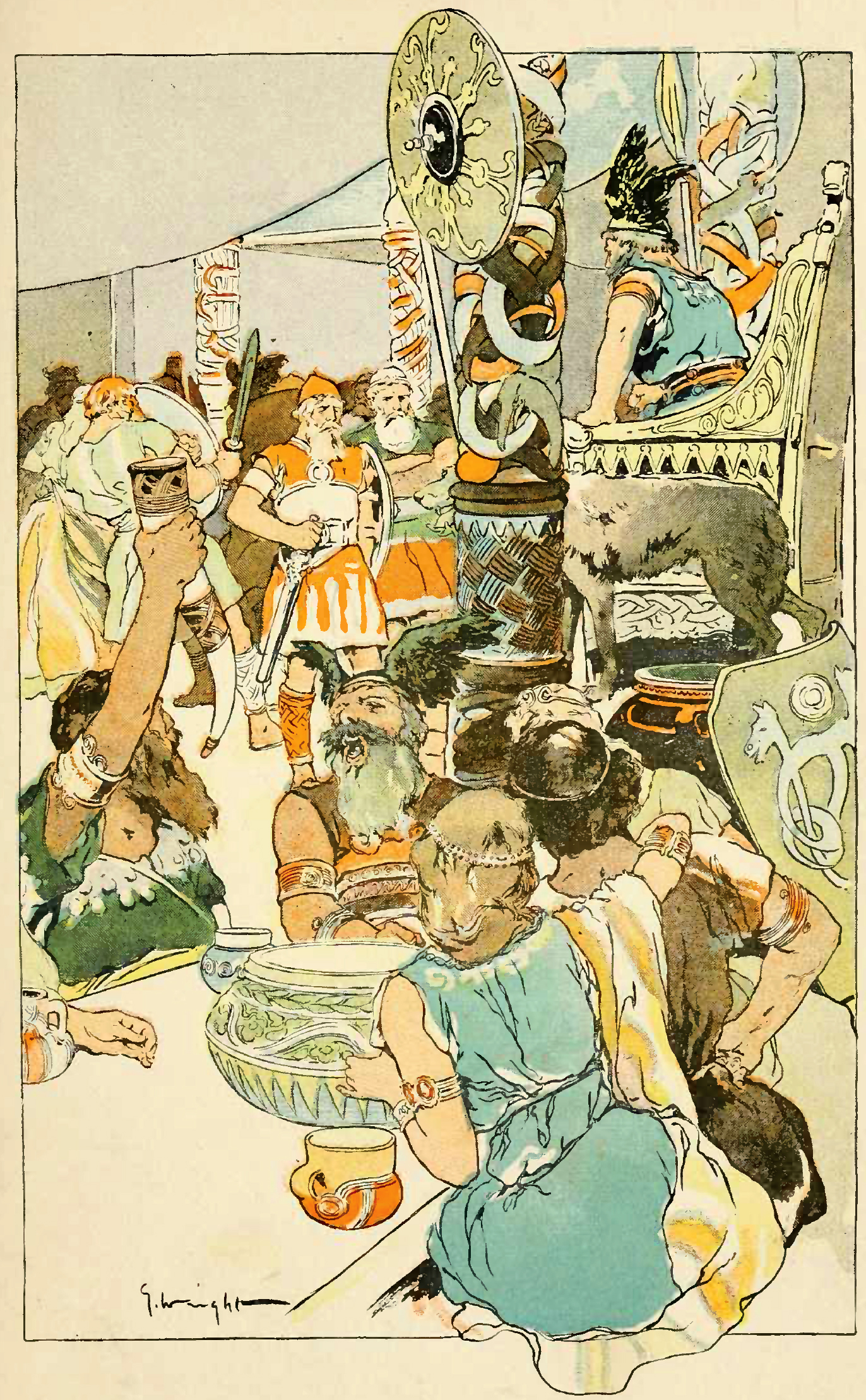 Captioned as "Gylfe stood boldly before Odin".